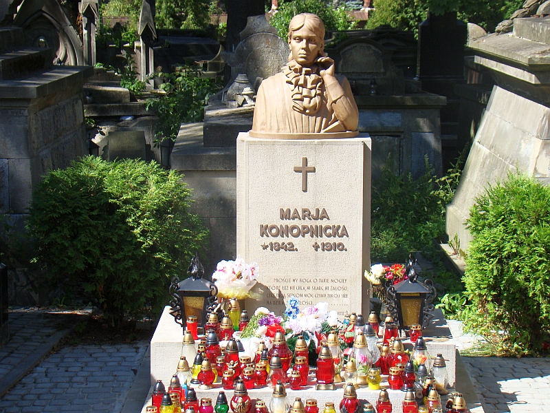 Maria Konopnicka